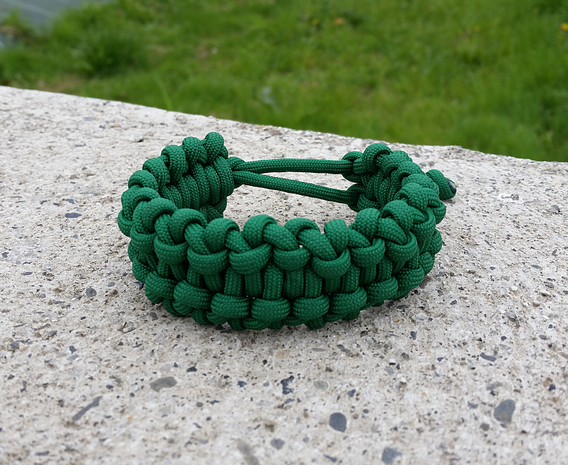 Survival bracelet with tying "Backbone Bar"